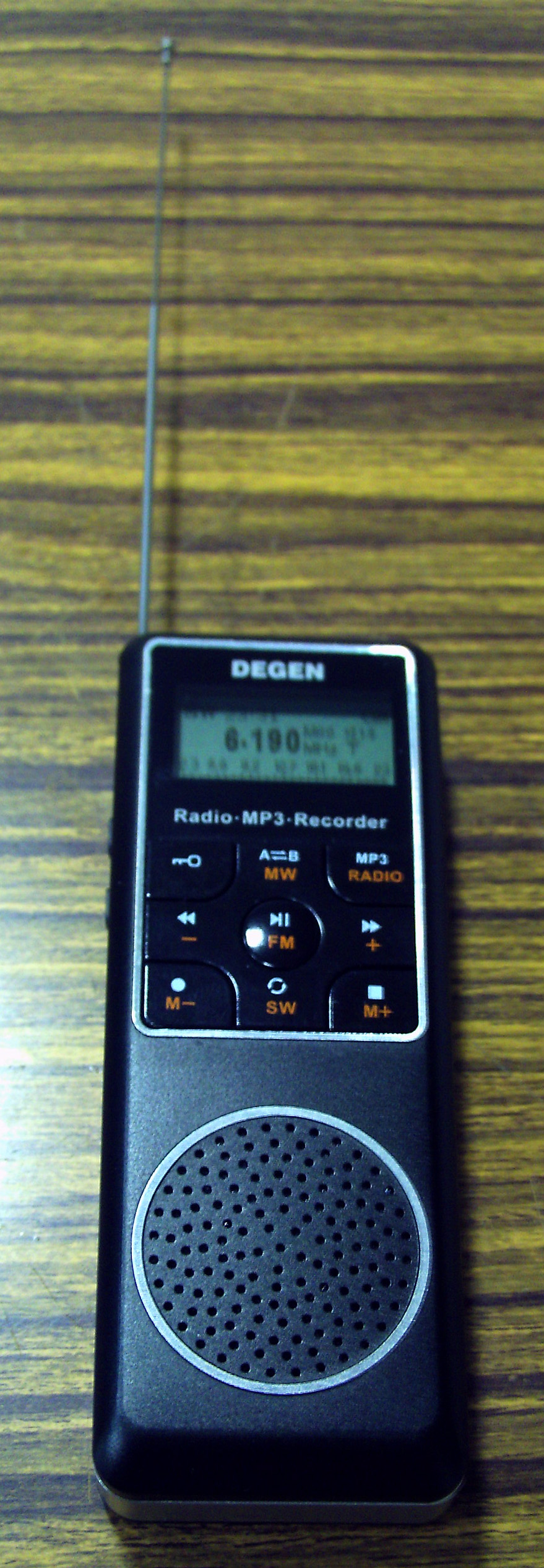 DEGEN Radio DE-1127